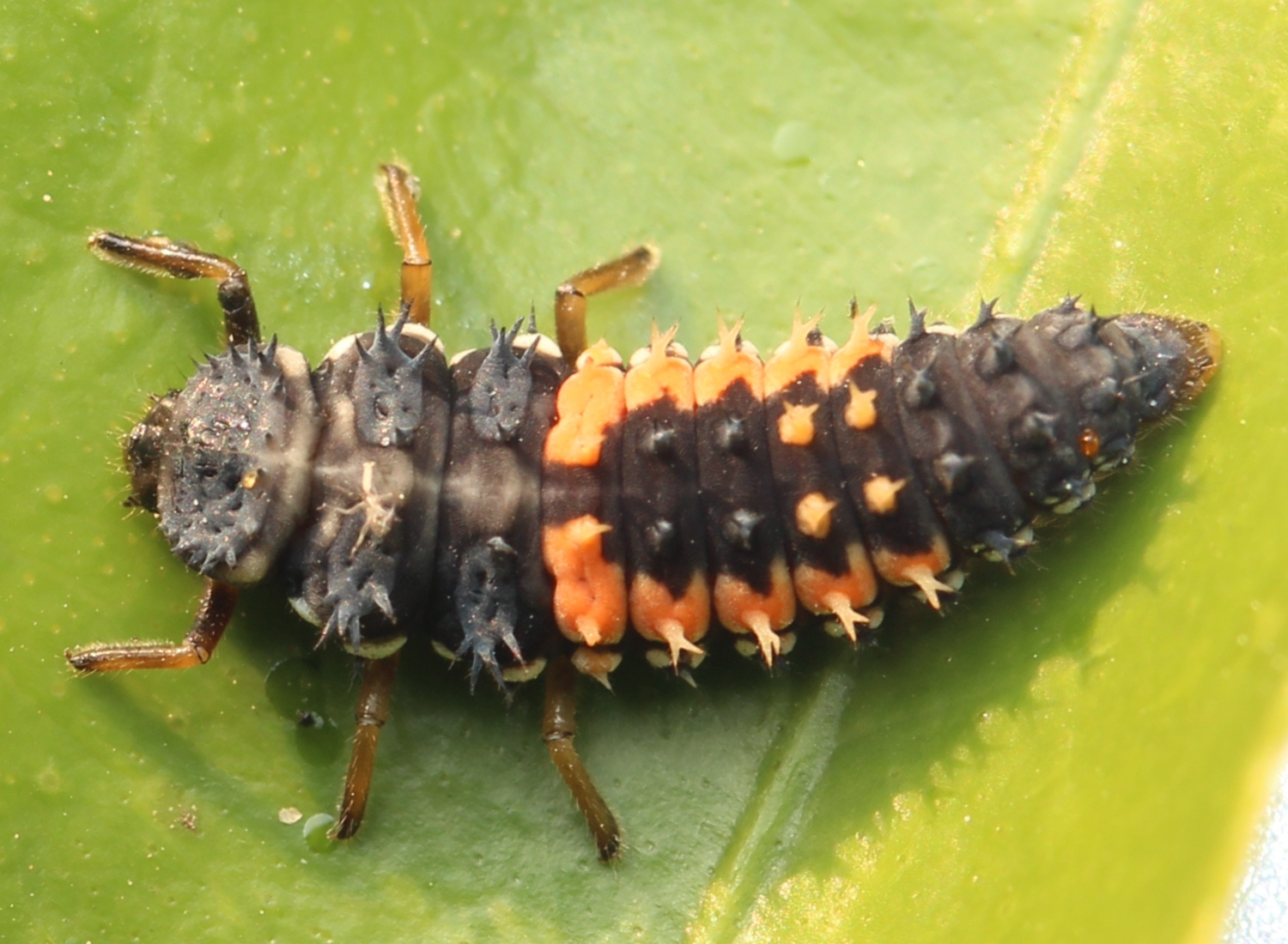 Harmonia axyridis (Asian ladybird beetle), Larva on leaf in Japan